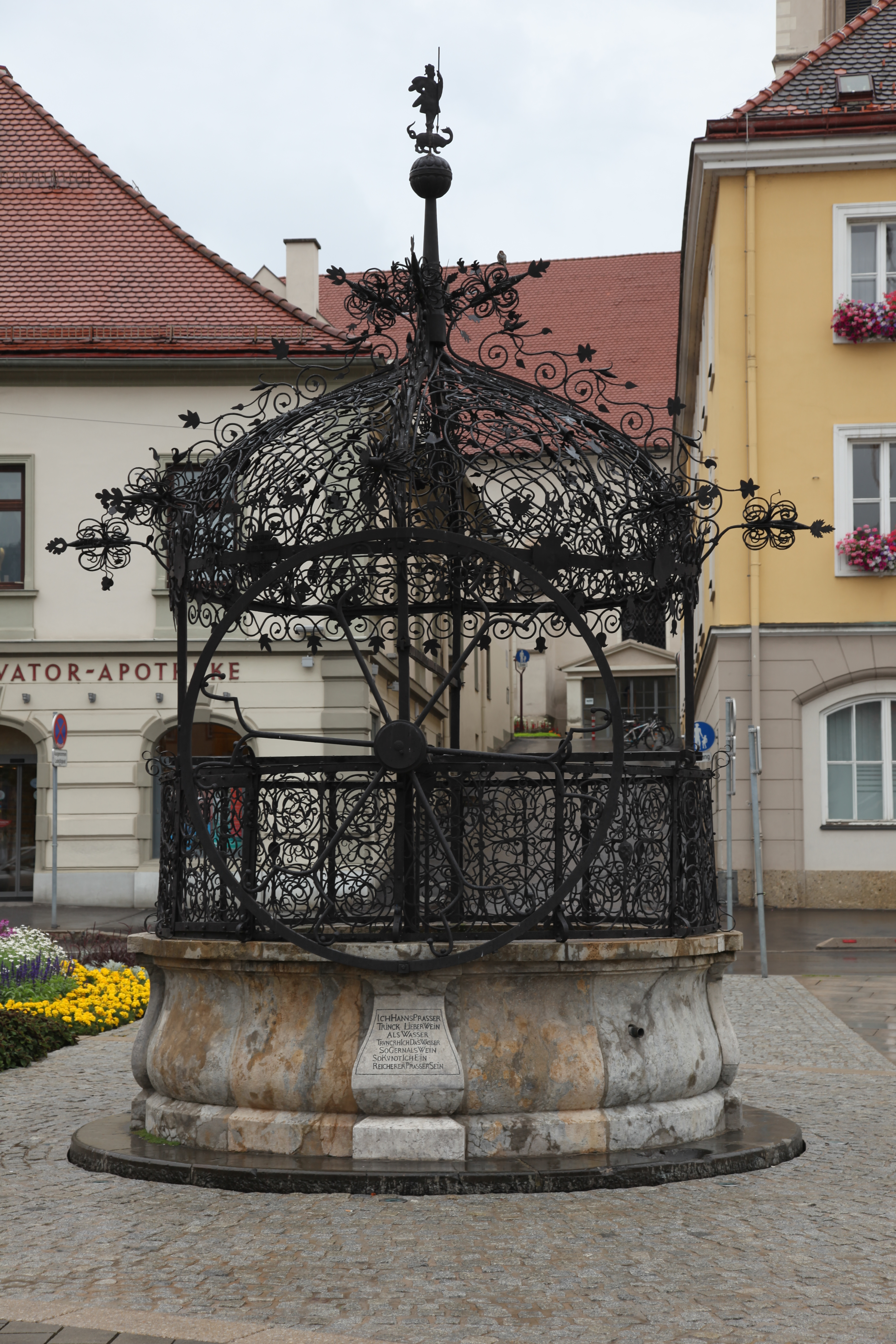 Eiserner Brunnen in Bruck an der Mur in Austria. A wrought iron well from 1626